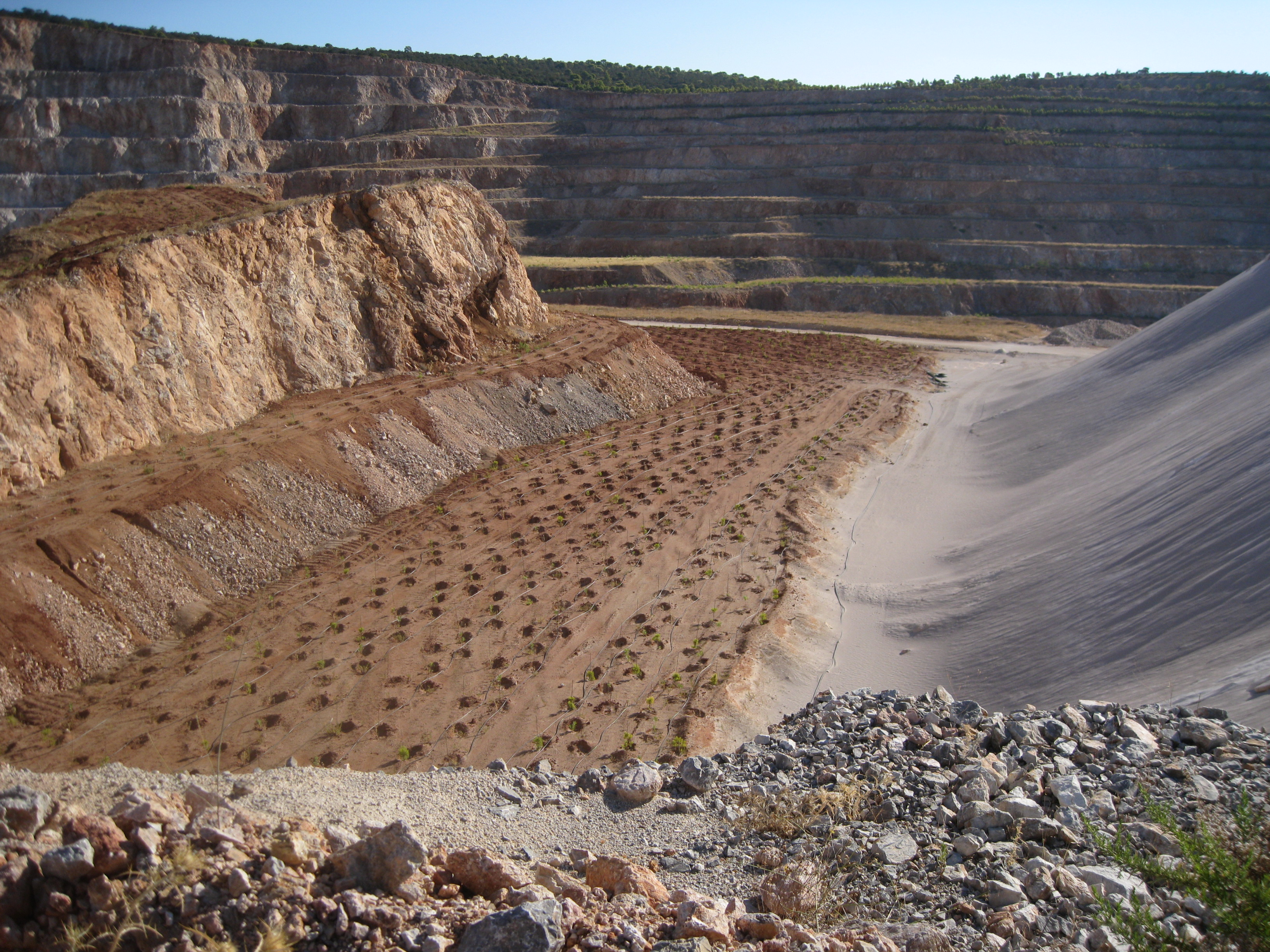 Quarry Rehabillitation in Attica,Greece